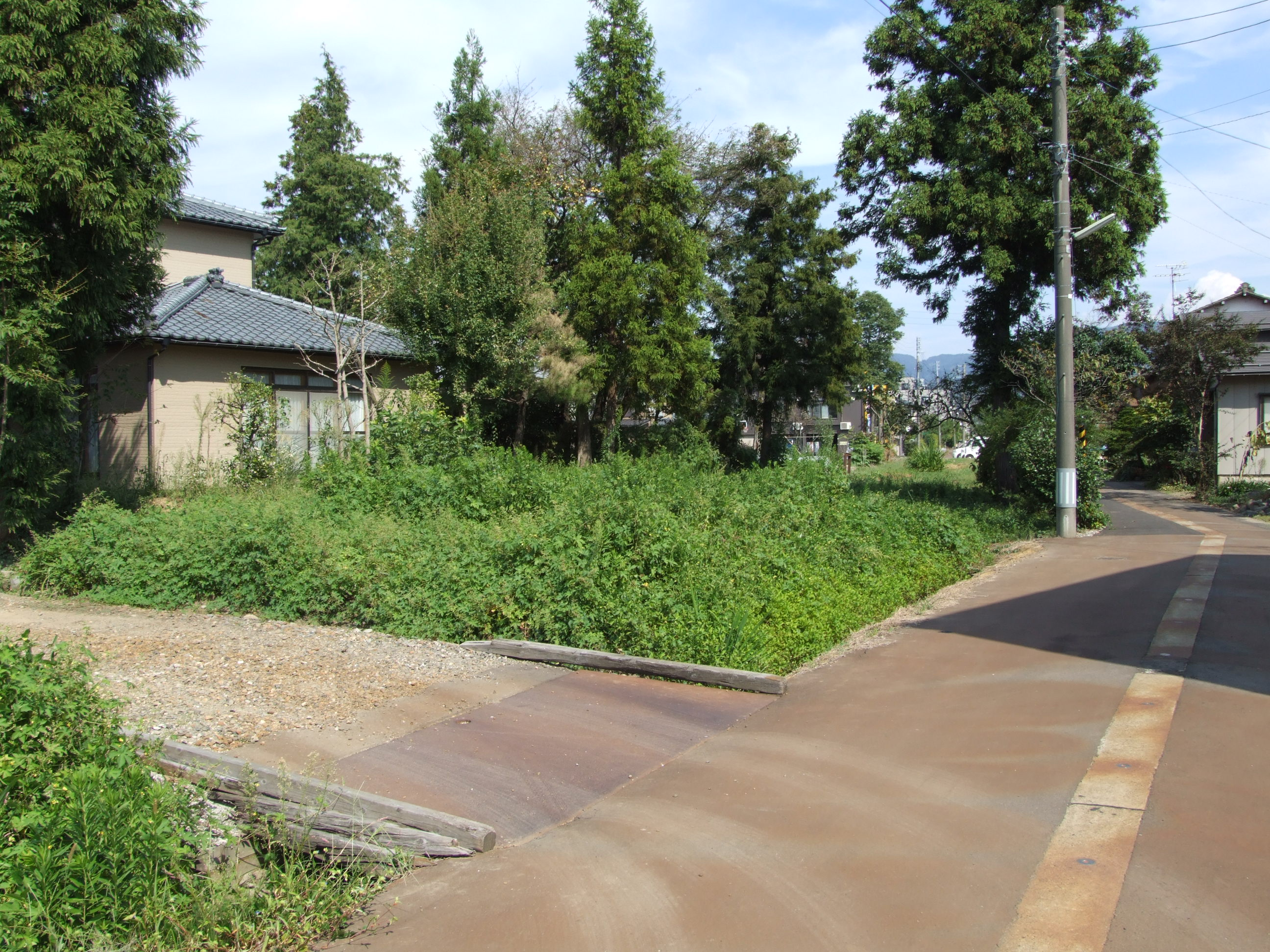 Remains of Nagakura Station Tochio Line in 2011